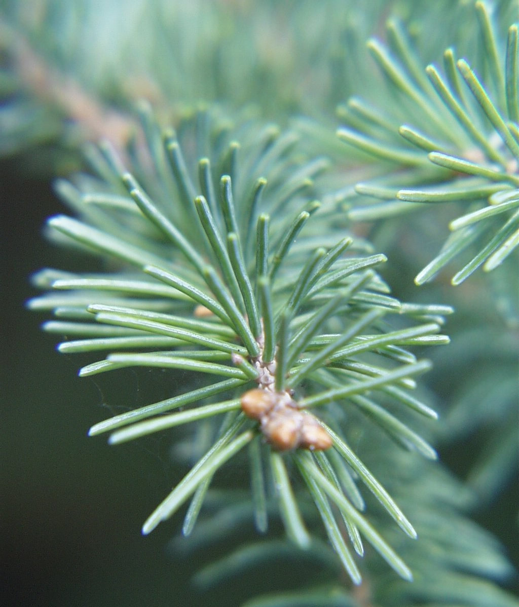 Leaves of the White Spruce (Picea glauca) are needle-shaped and the arrangement is spiral